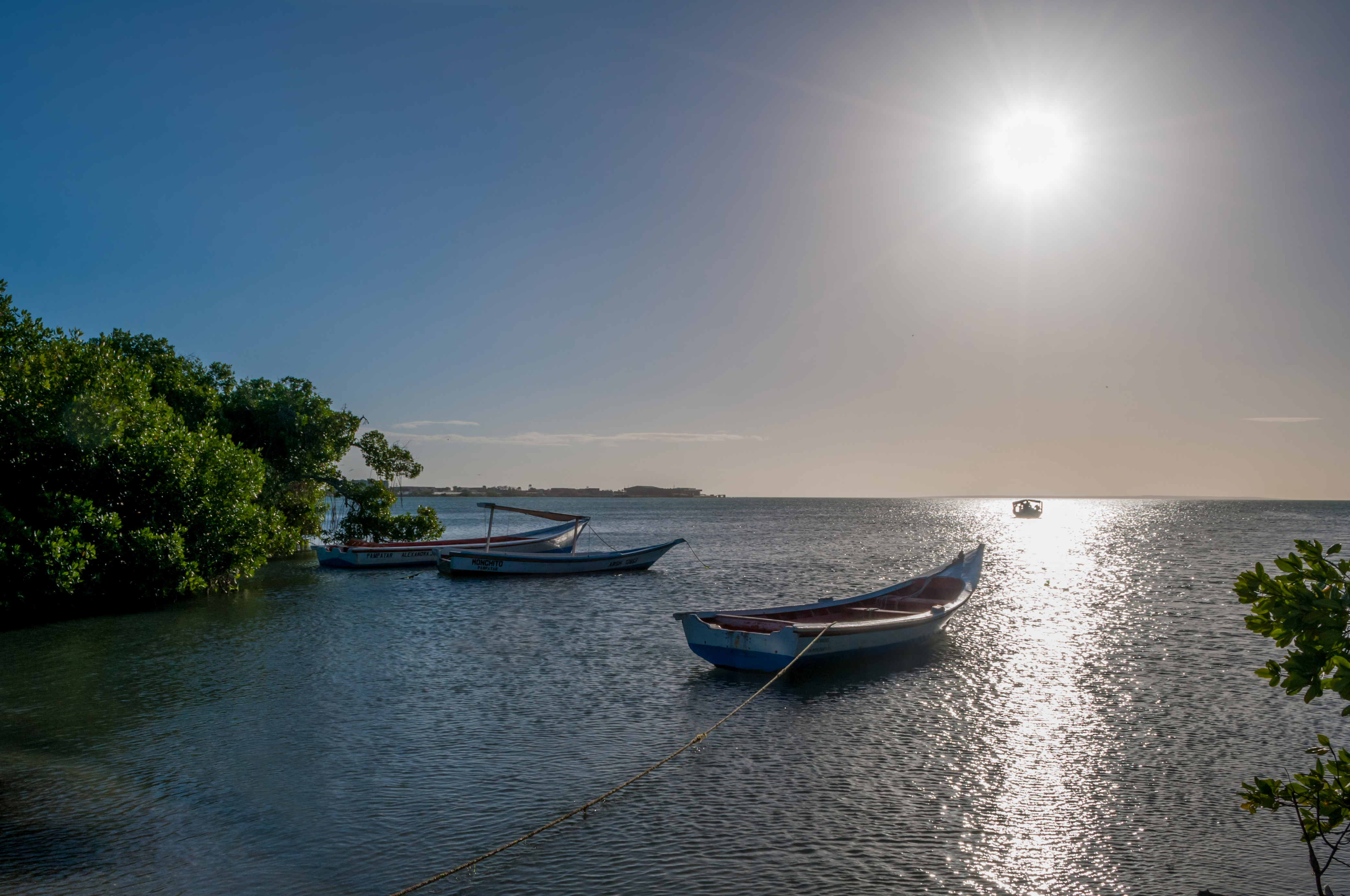 El Guamache Bay, Margarita island, Venezuela